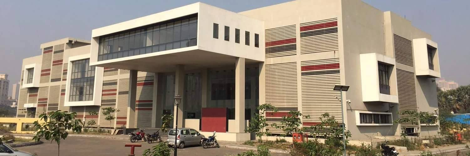 Building